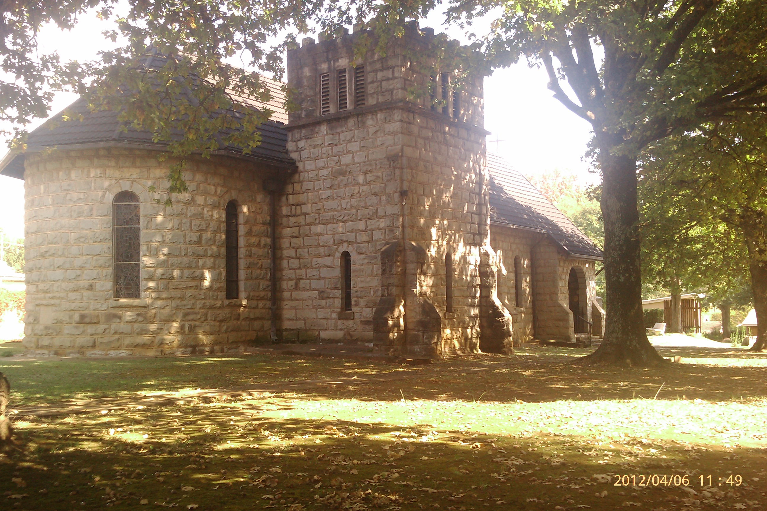 Church in Himeville